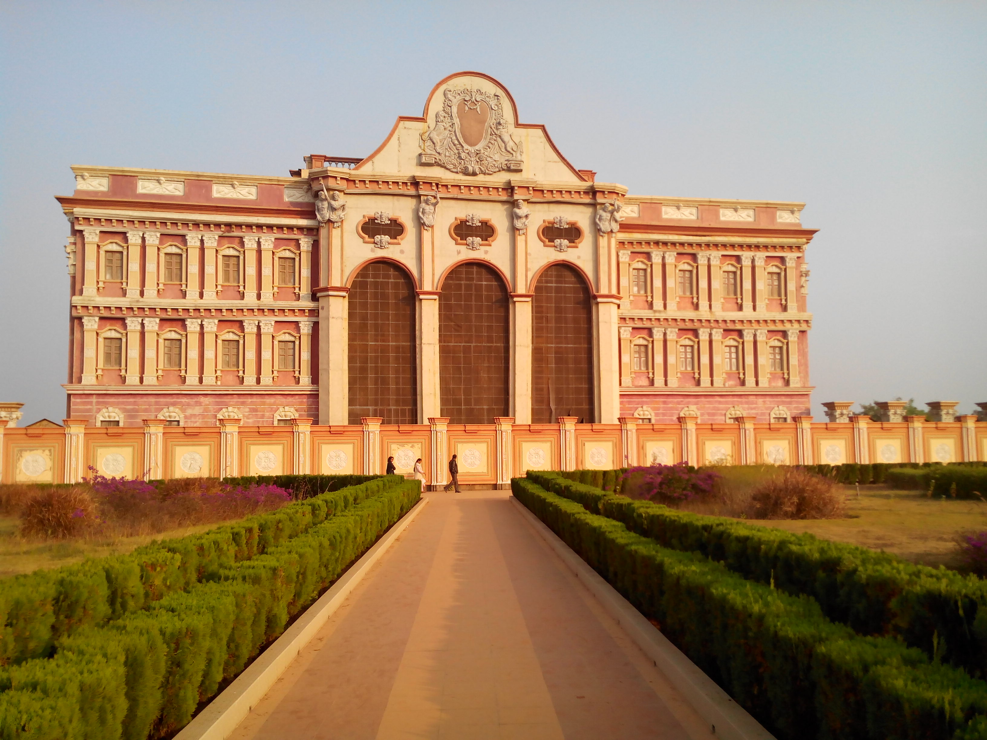 This is a replica of an unknown monument built in Prayag Film City, in Chandrakona, in Paschim Medinipur district of West Bengal.